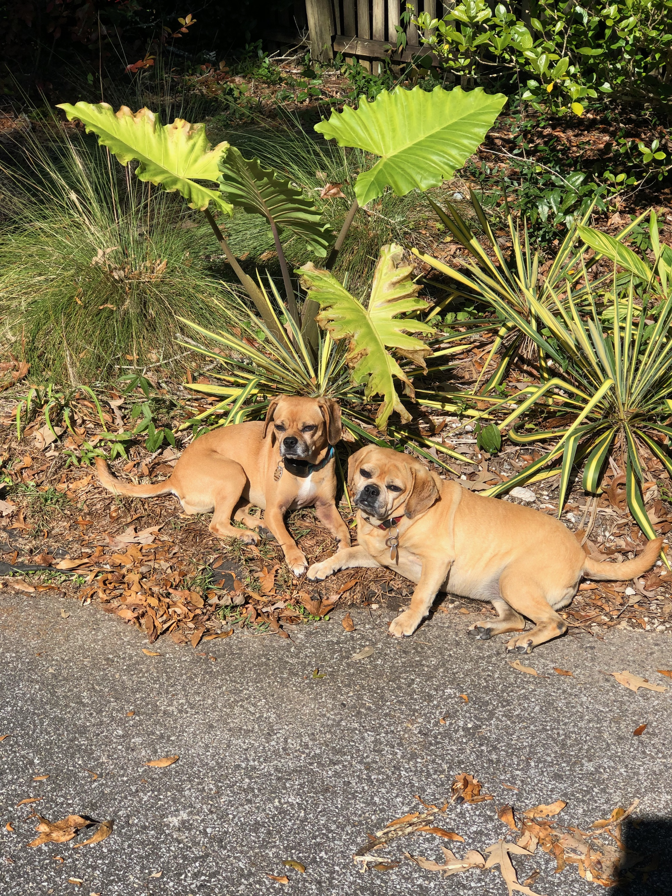 Puggles are inclined to lay out in the sun, and are usually a very friendly and relaxed breed.